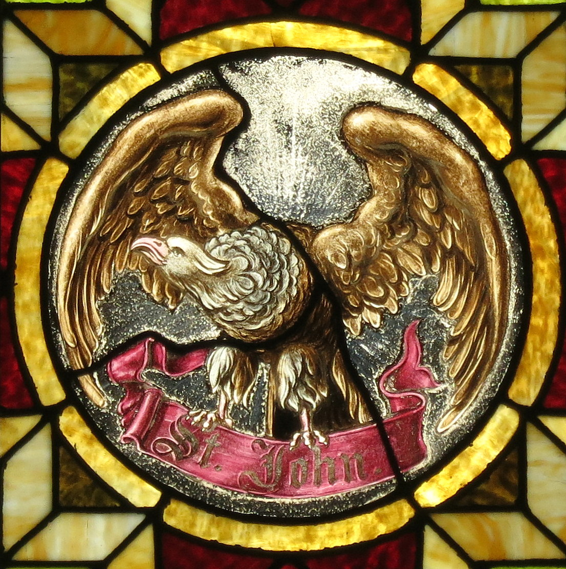 Saint John the Baptist Catholic Church (Dry Ridge, Ohio) - stained glass, Eagle of St. John